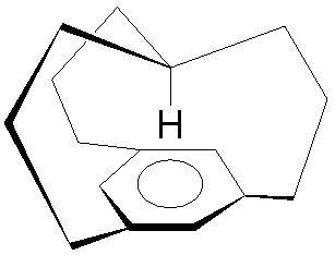 Description: chemical structure of so called "iron maiden" cyclophane Author: MOstrows Date: 22.01.2007